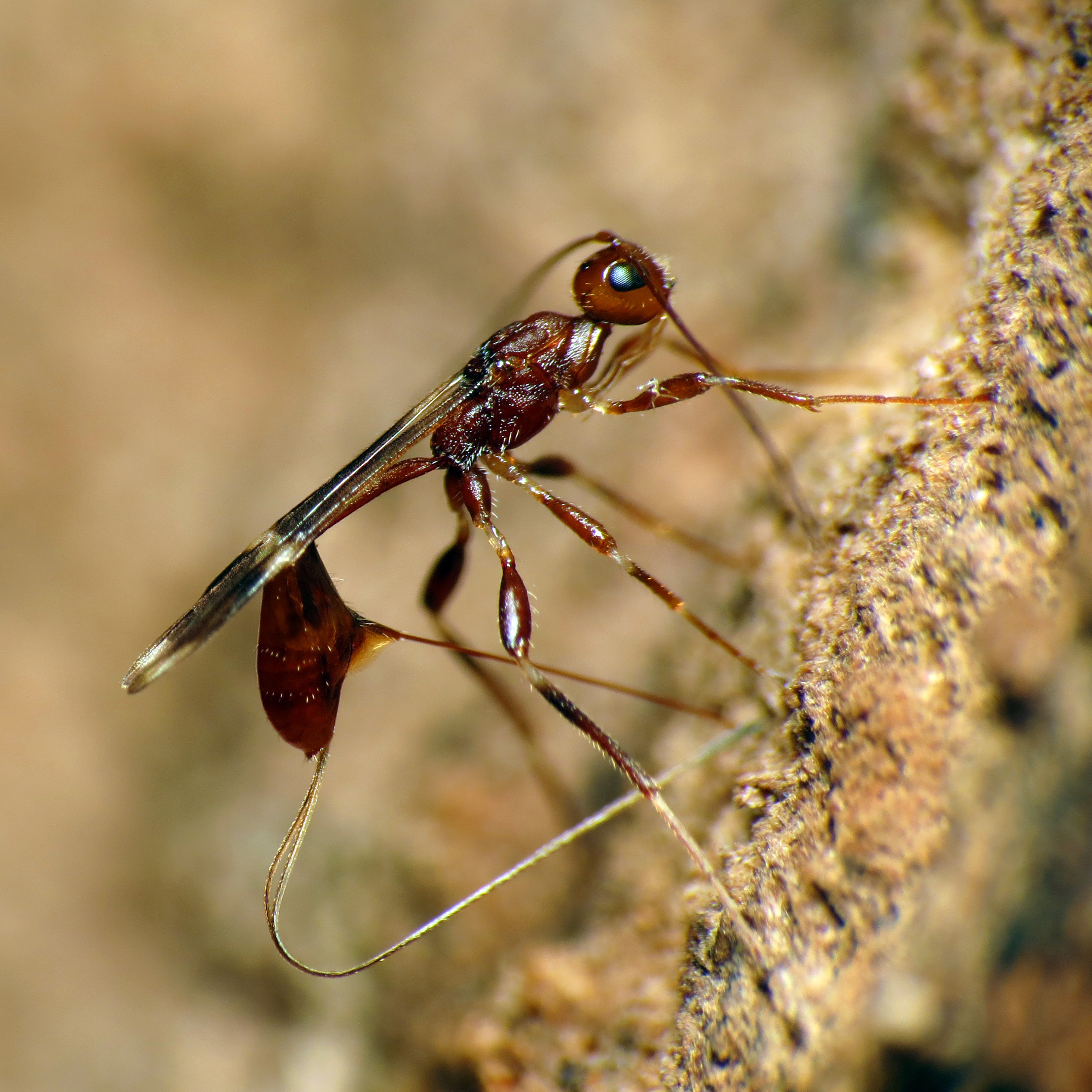 Doryctinae sp. Rock Creek Park, Washington, DC, USA.